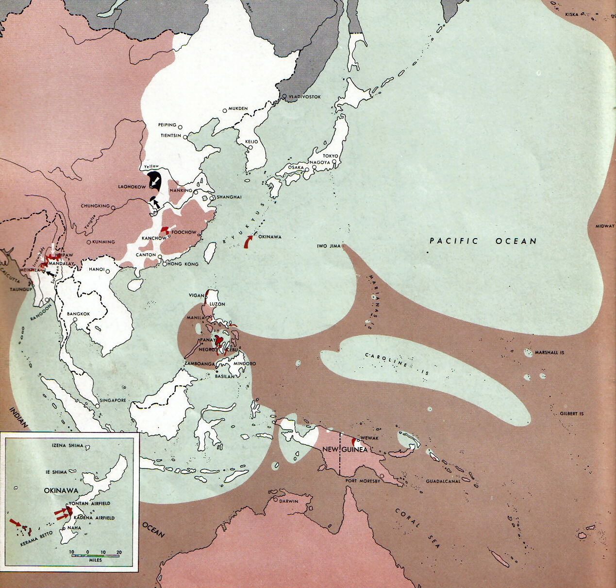 Map of the front against Japan as of 1 Apr 1945: This map is taken from the source "Atlas of the World Battle Fronts in Semimonthly Phases to August 15th 1945: Supplement to The Biennial report of The Chief of Staff of the United States Army July 1, 1943 to June 30 1945 To the Secretary of War". (See Cover, Forward and Map details)